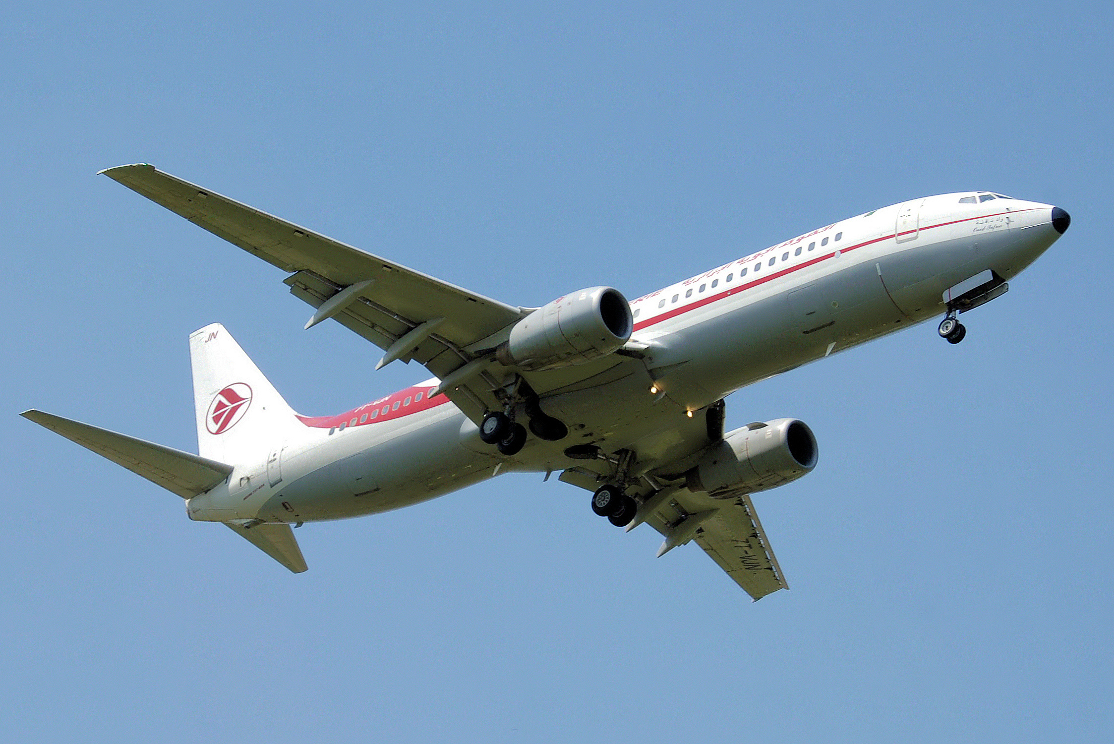 éAir Algerie Boeing 737-800 (7T -VJN) landing at London Heathrow Airport.